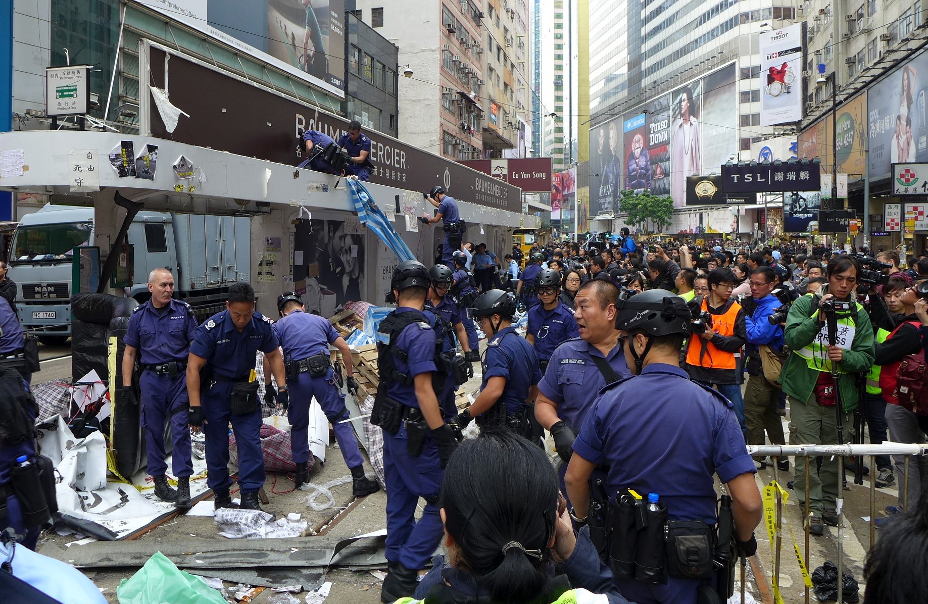 Special Tactical Squad Cleaning CWB